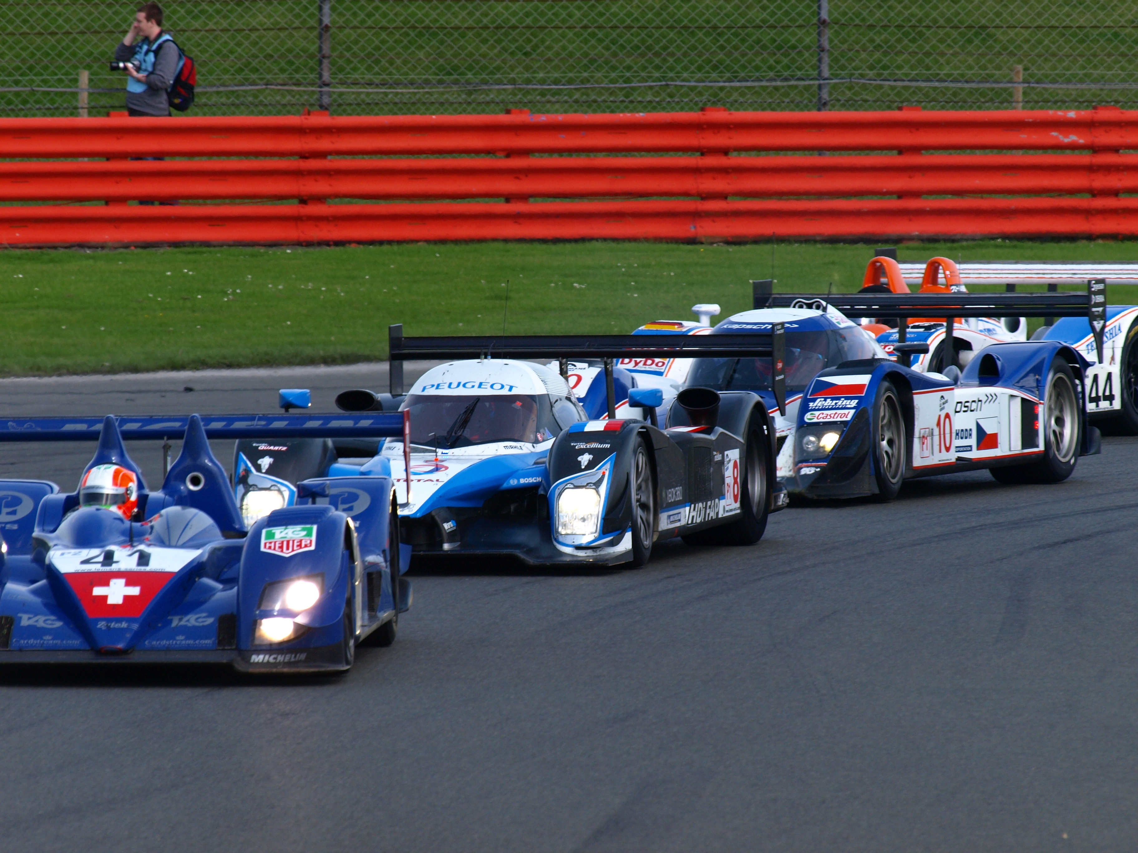 Trading Performance's Zytek 07S/2, Team Peugeot Total's Peugeot 908, Charouz Racing System's Lola B08/80-Aston Martin, and Kruse Schiller Motorsports Lola B05/40 Mazda at the 2008 1000km of Silverstone.